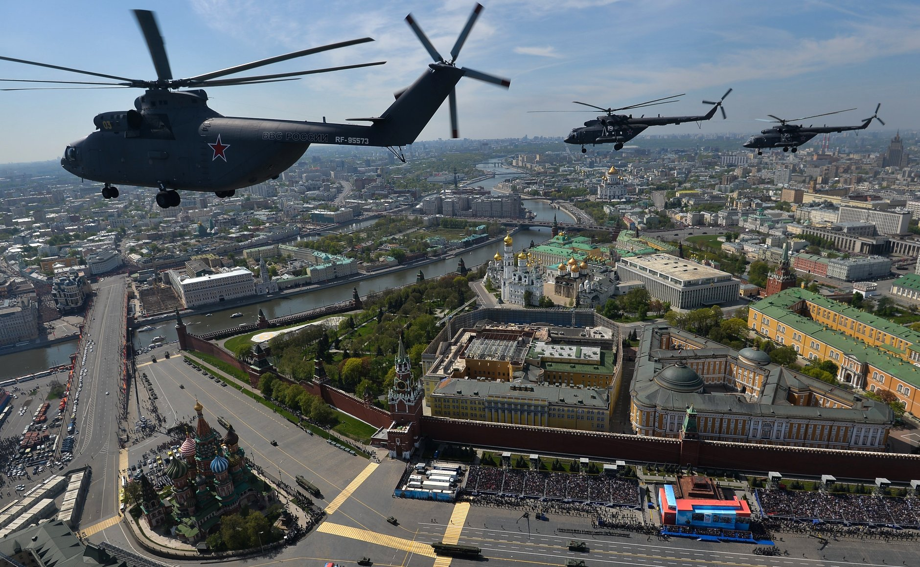 Russian Air Force helicopters (Mil Mi-26 and Mil Mi-8) over Red Square as part of the flypast for the 2015 Victory Day Parade